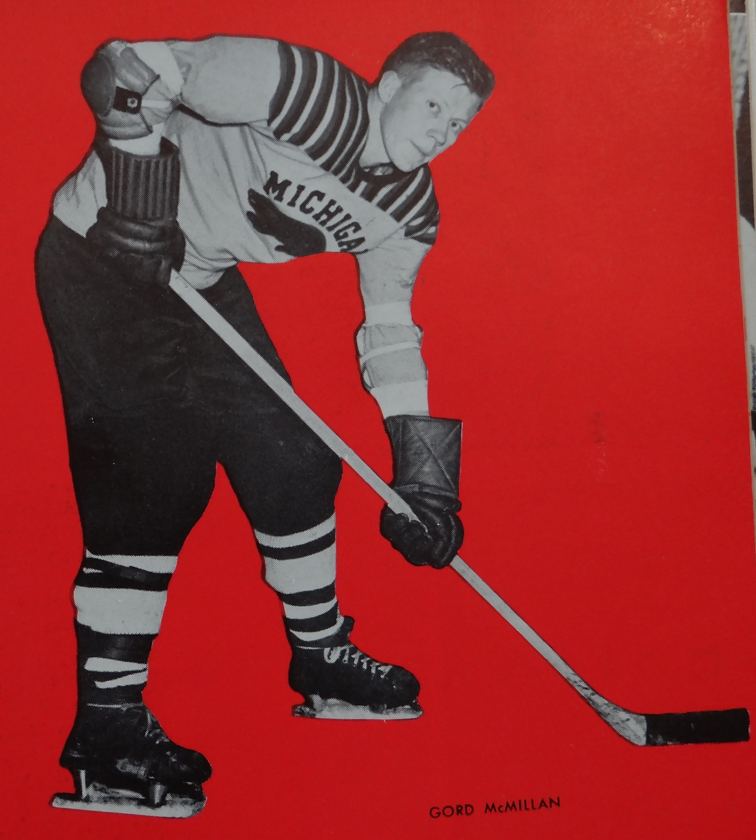 University of Michigan ice hockey player Gordon McMillan Photograph of University of Michigan ice hockey player Gordon McMillan